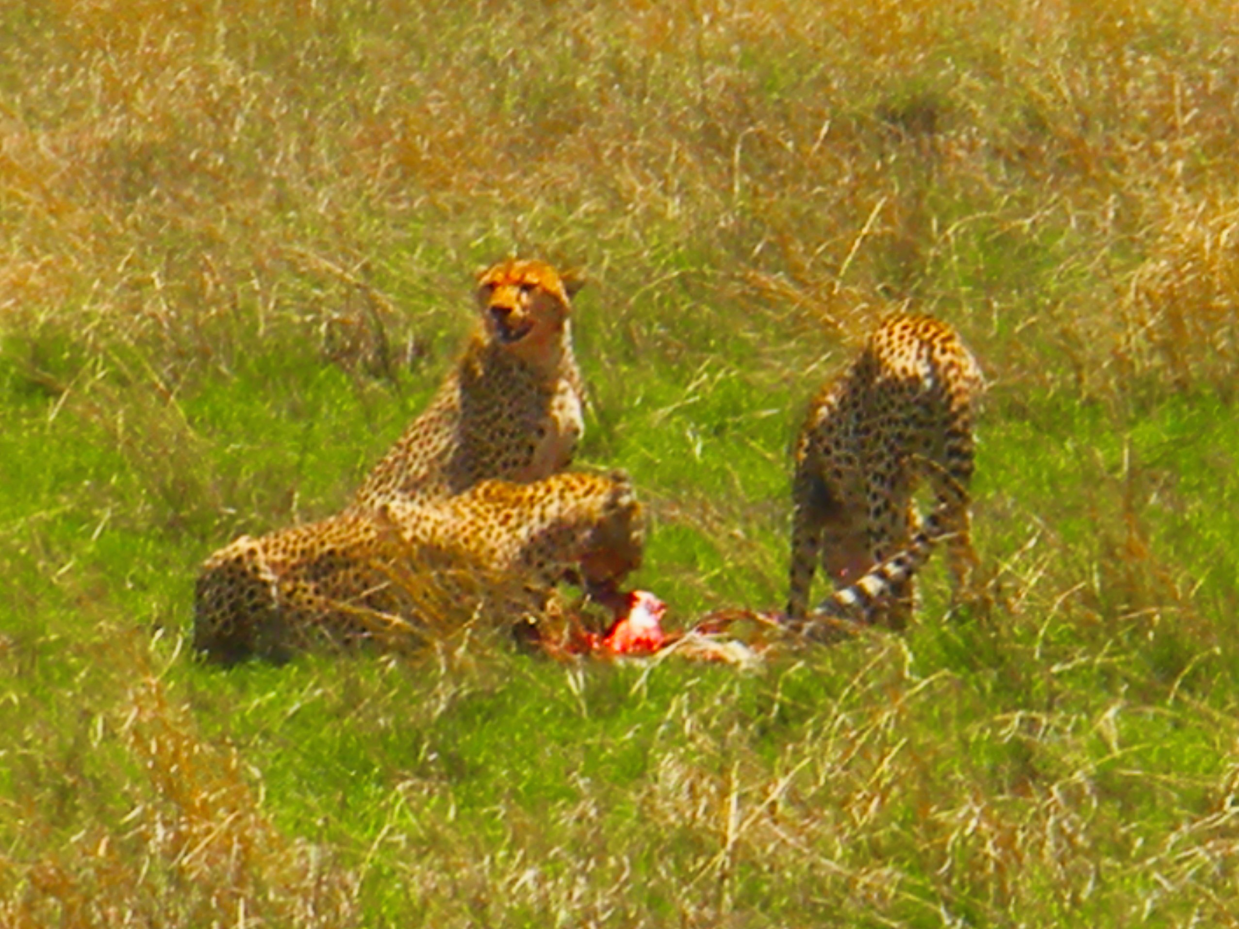 Three cheetahs are enjoying their prey's meat in the Serengeti Prairies. This photo has been taken by Prof. Chen Hualin.